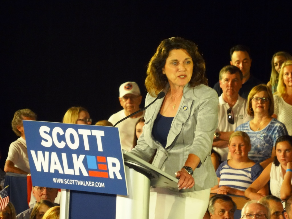 . State Sen. Leah Vukmir tells the crowd that she supports Scott Walker.